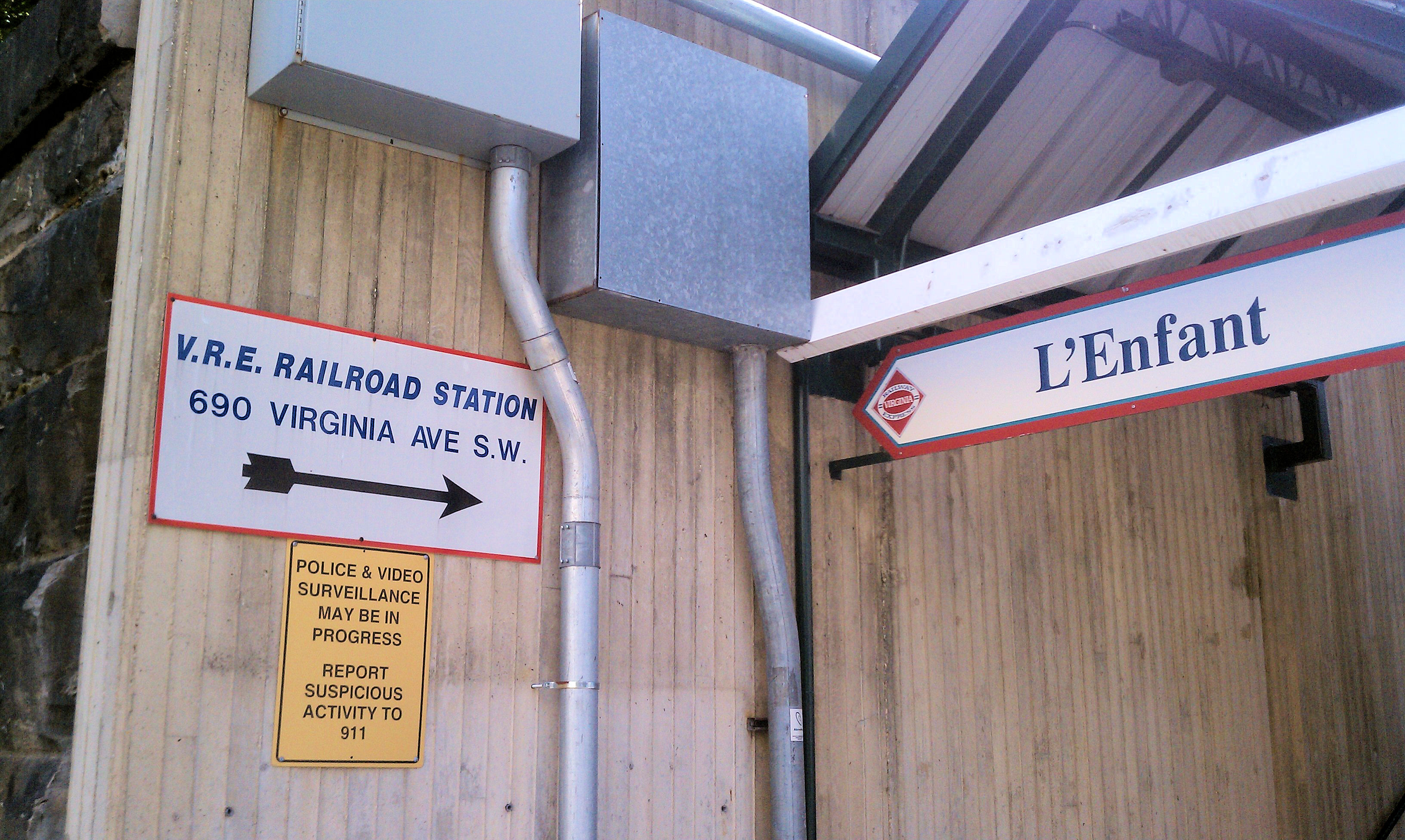 An entrance to the L'Enfant Plaza platform of the Virginia Railway Express system in Washington, D.C., in the United States. This entrance, one of two, is located at the intersection of 7th Street SW and Virginia Avenue SW.